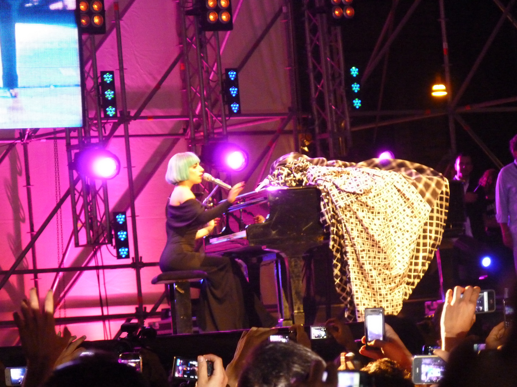 Lady Gaga performing her song "The Edge of Glory" at Europride 2011, in Rome, Italy.